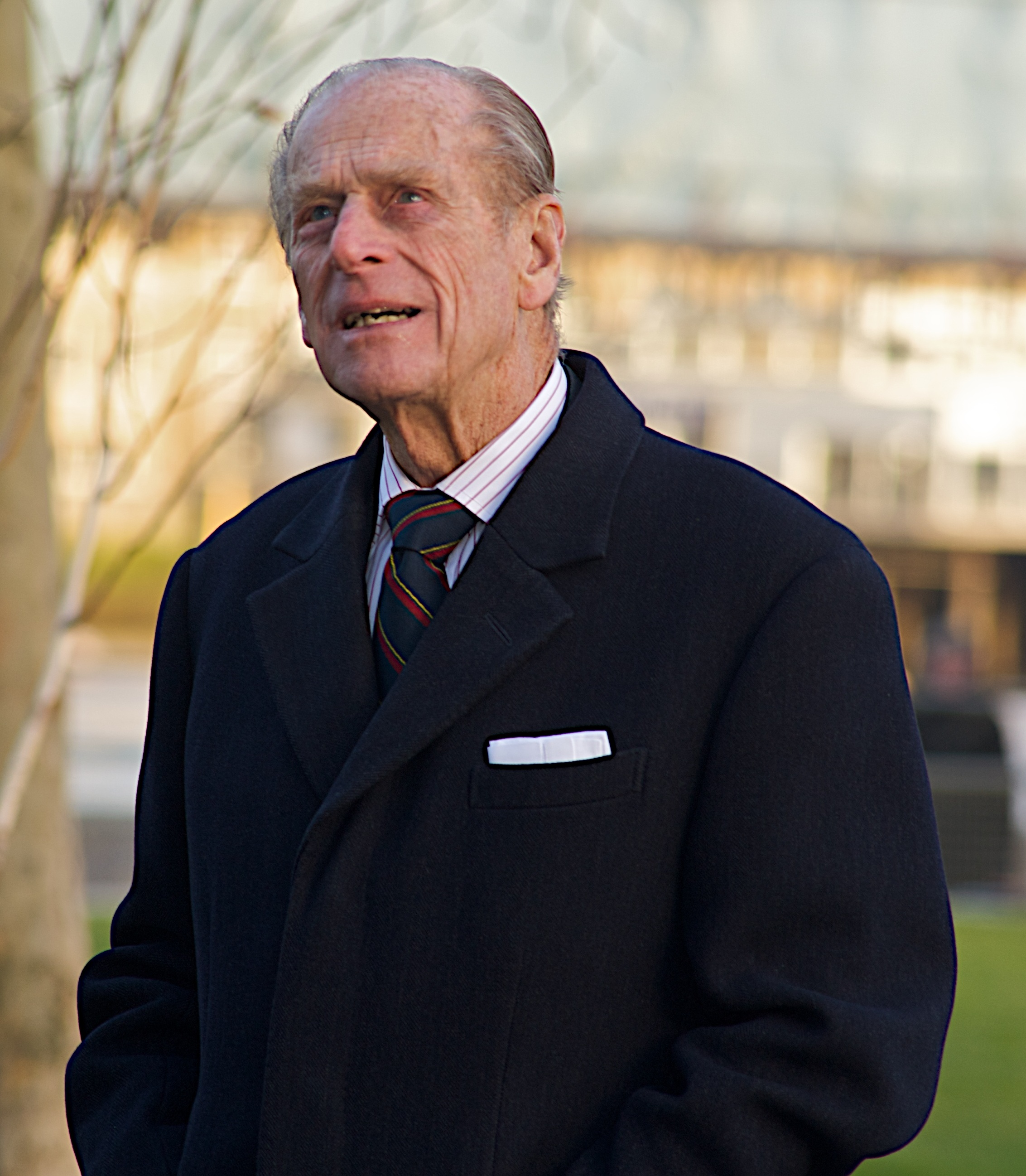 Prince Philip, Duke of Edinburgh, husband of Queen Elizabeth II of the United Kingdom, looking at City Hall in London.